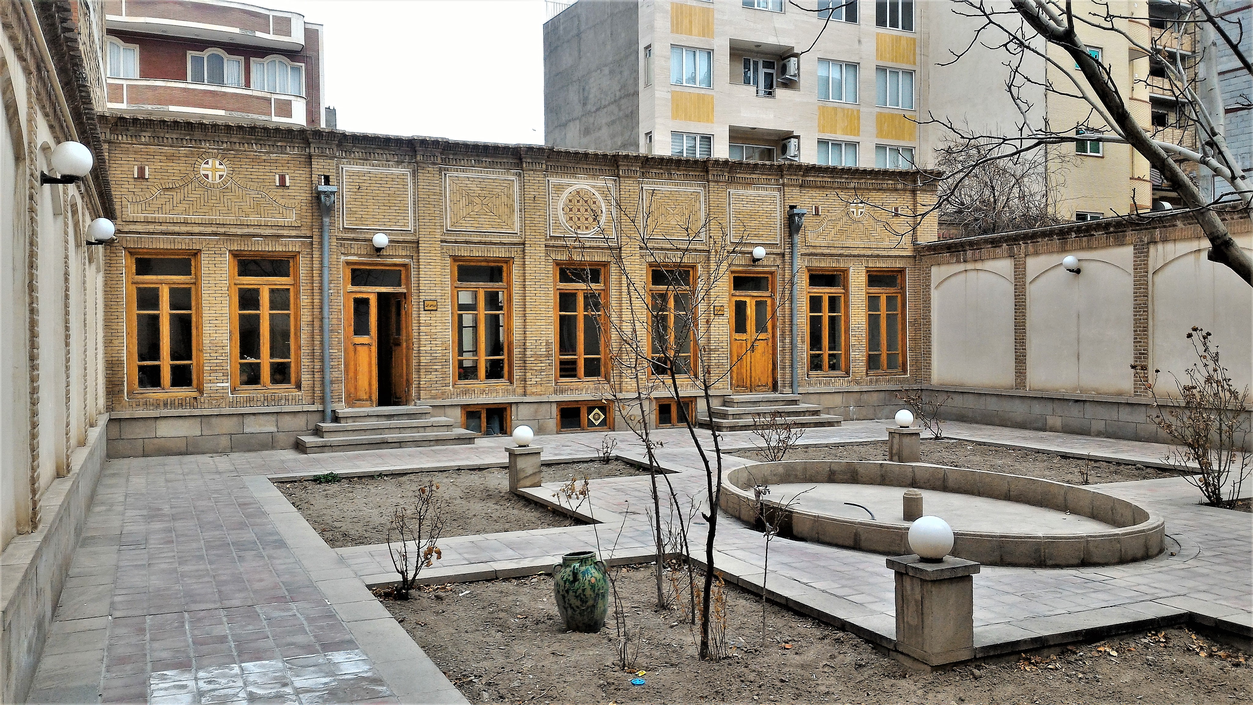 Sheykh Mohammad Khiabani's House at Tabriz, Iran